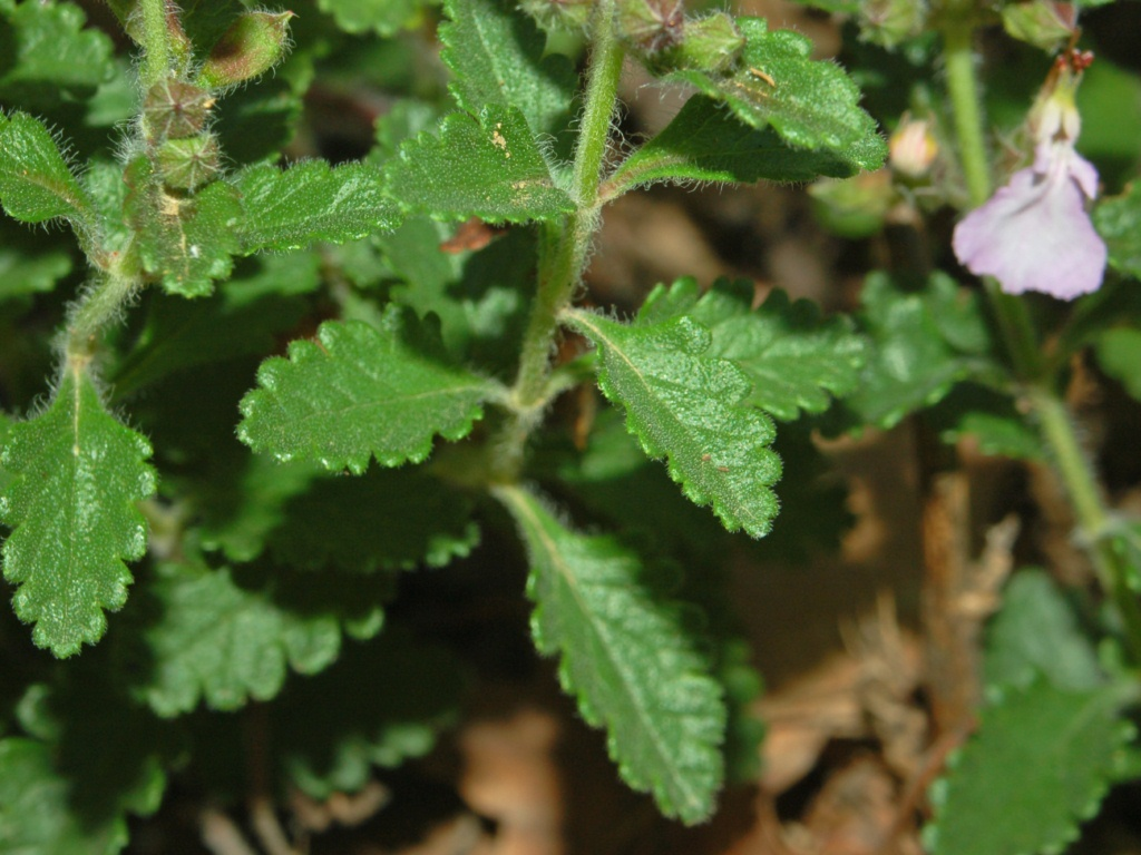 Teucrium chamaedrys - Genova, Italy